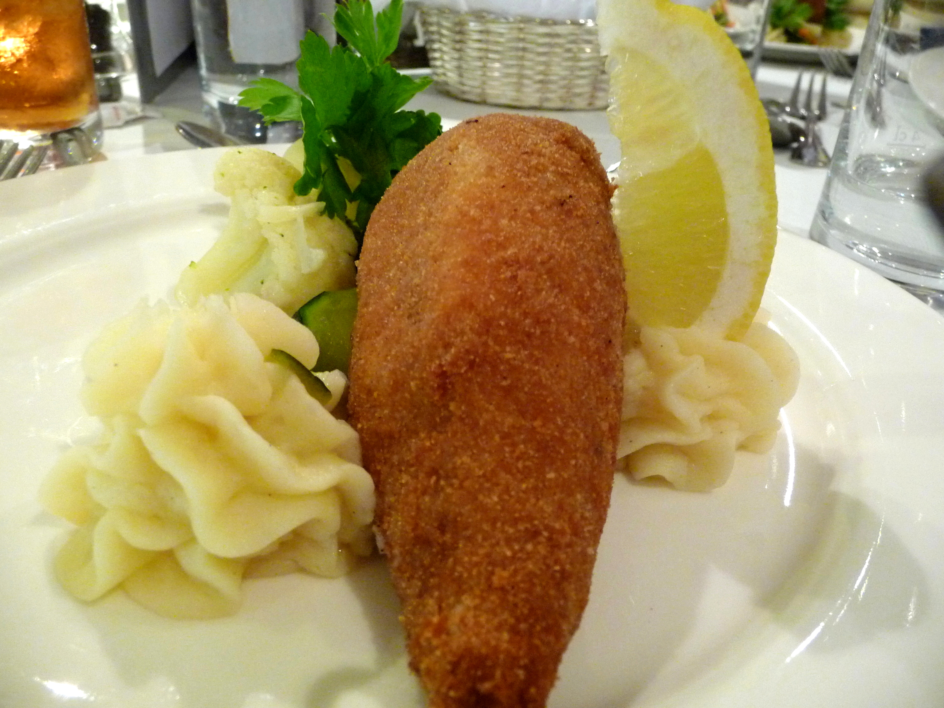 Chicken kiev, which burst with butter when cut open.